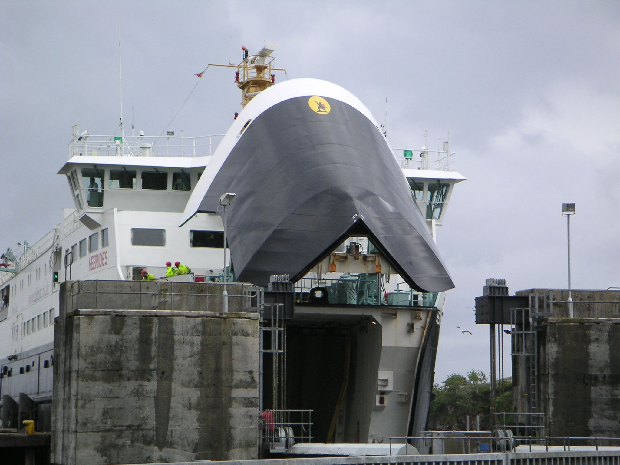 Tarbert to Uig ferry, MV Hebrides at Tarbert, Isle of Harris, Scotland